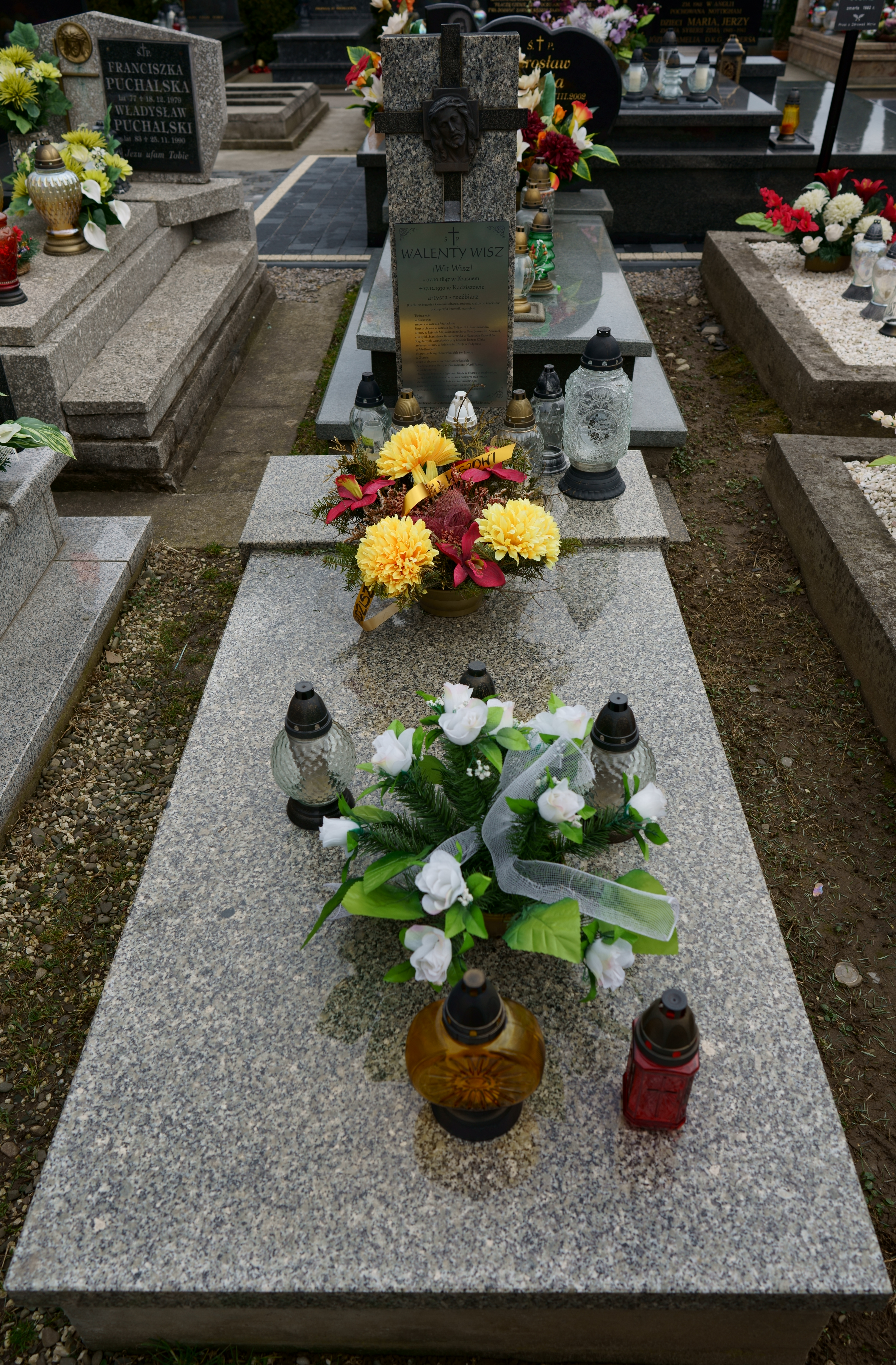 Cemetery in Radziszów, grave of Walenty Wisz